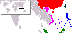 Location of the Spratly Islands and the countries claiming them